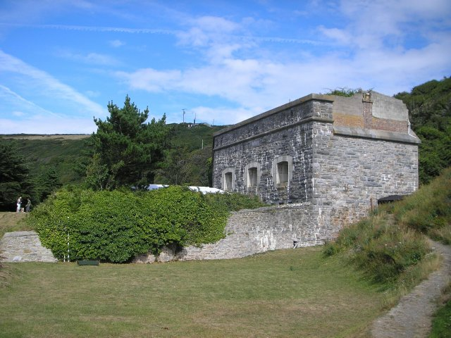 Polhawn Fort Overlooking Whitsand Bay this fort has a licence for civil wedding ceremonies.